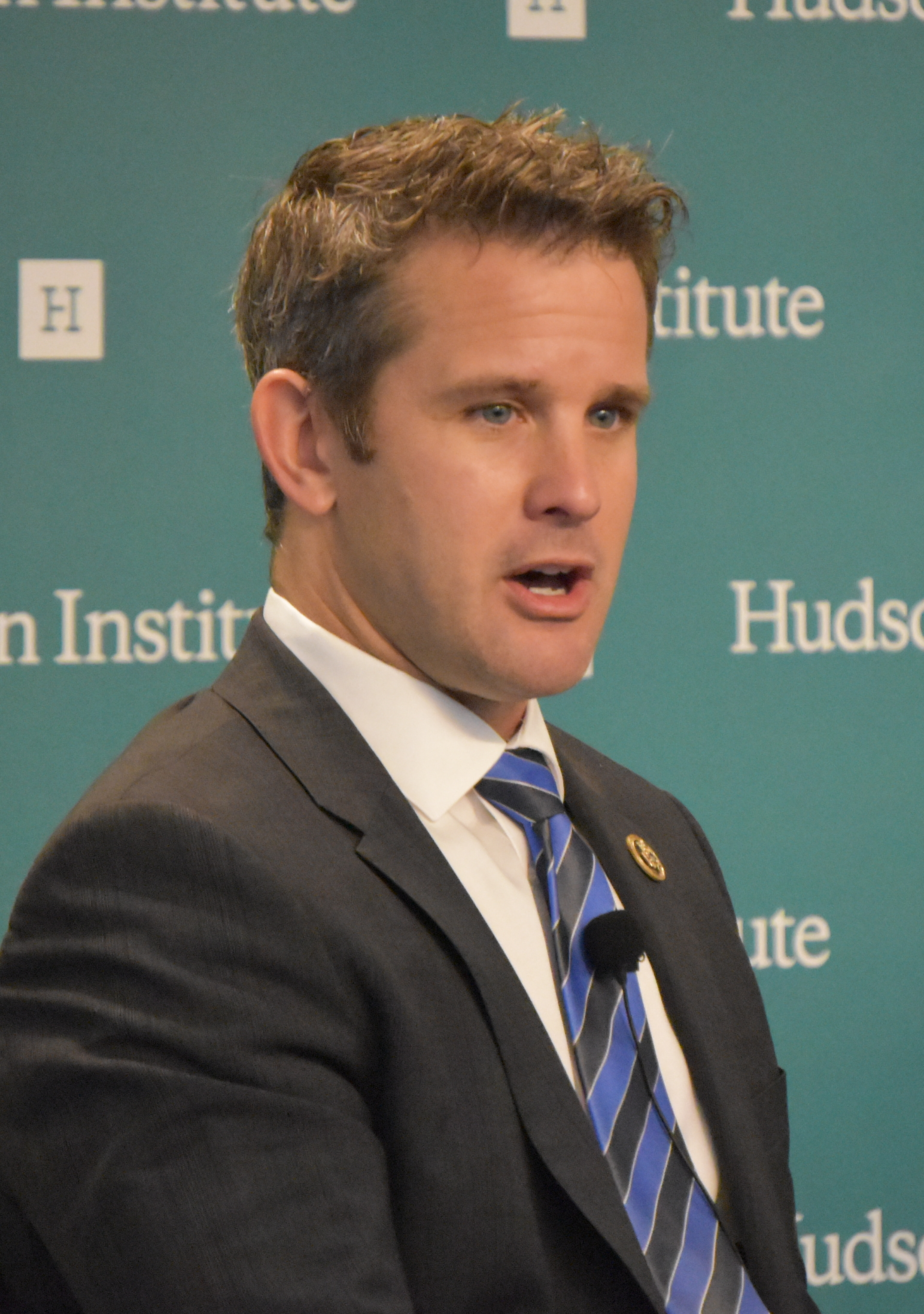 A Conversation on the Middle East with Congressman Adam Kinzinger